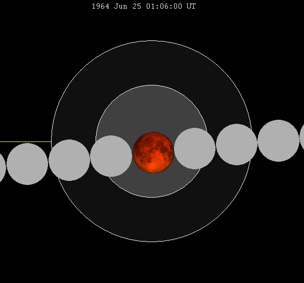 June 1964 lunar eclipse chart of moon's path through the earth's shadow. thumb